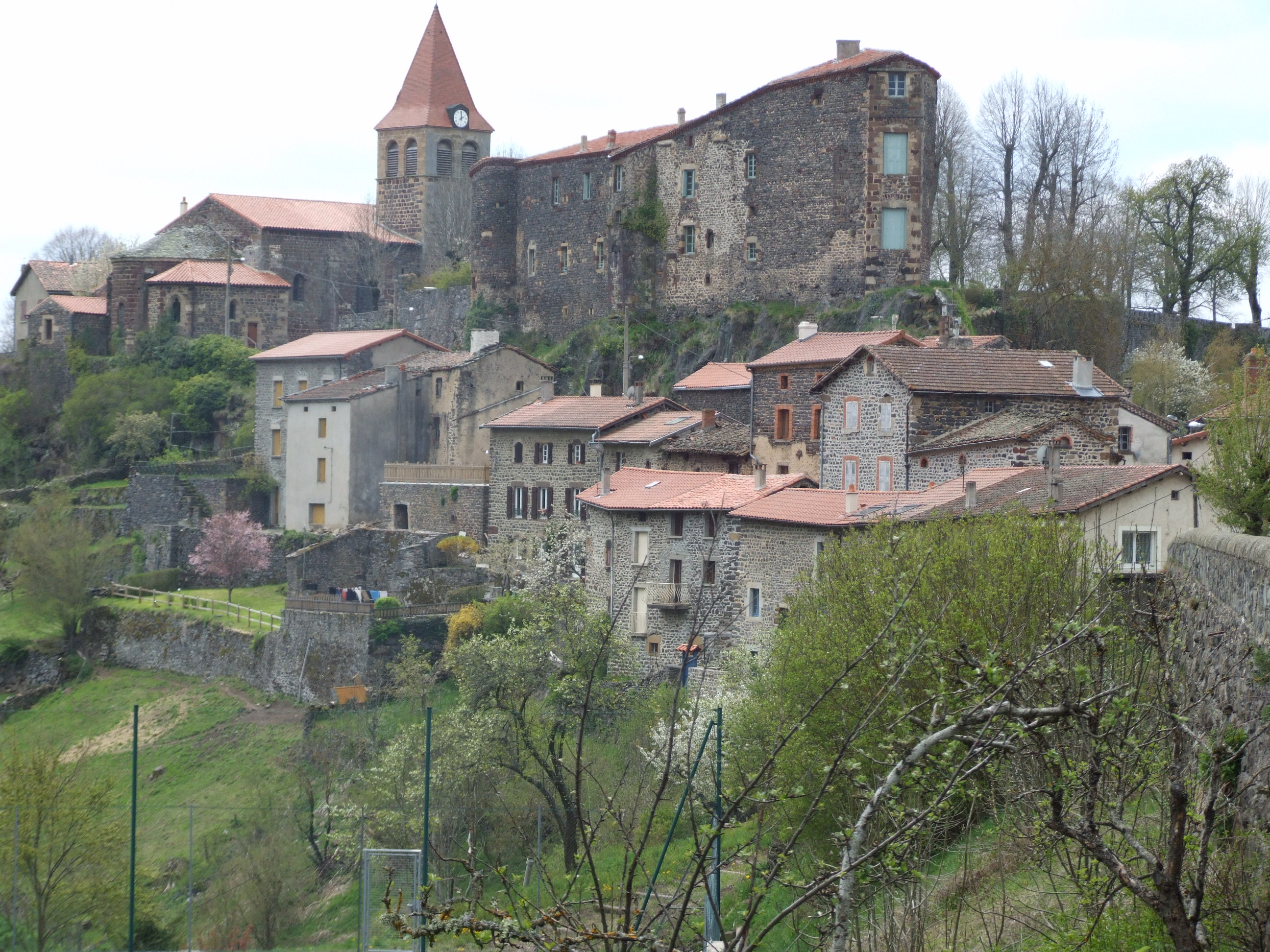 roman church of Saint-Privat-d’Allier